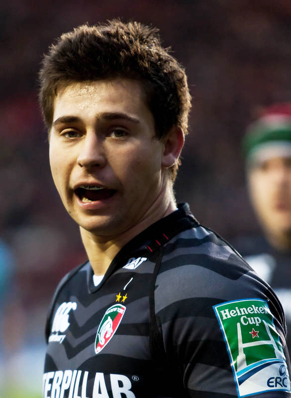 Leicester Tigers vs Benetton Treviso in a Heineken Cup Pool Game at Welford Road, Leicester, England